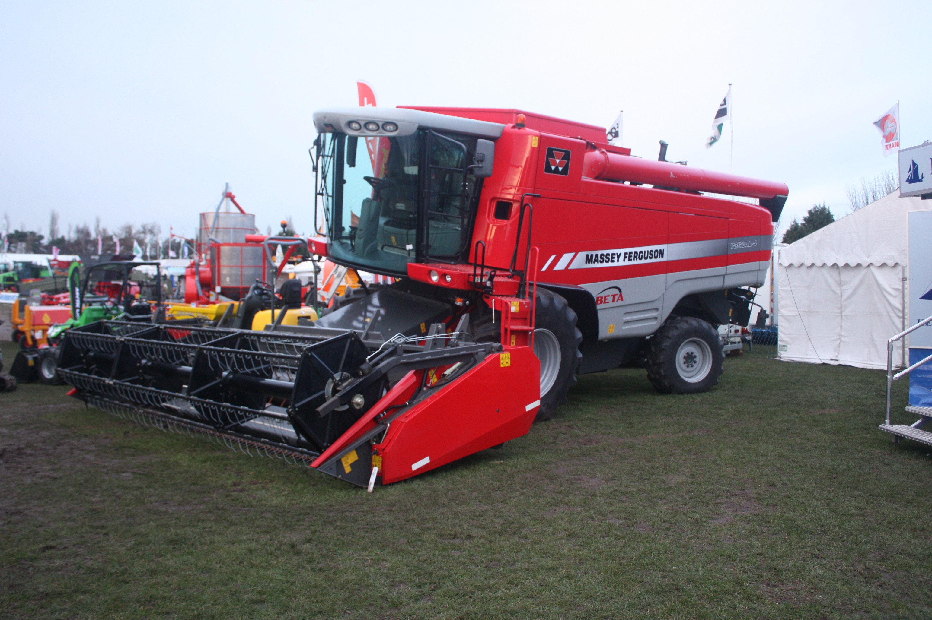 Massey Ferguson 7260 AL-4 Beta combine harvester fitted with the hillside levelling option at the LAMMA show (Lincolnshire Agricultural Machinery Manufacturers Association Show) in 2009, England